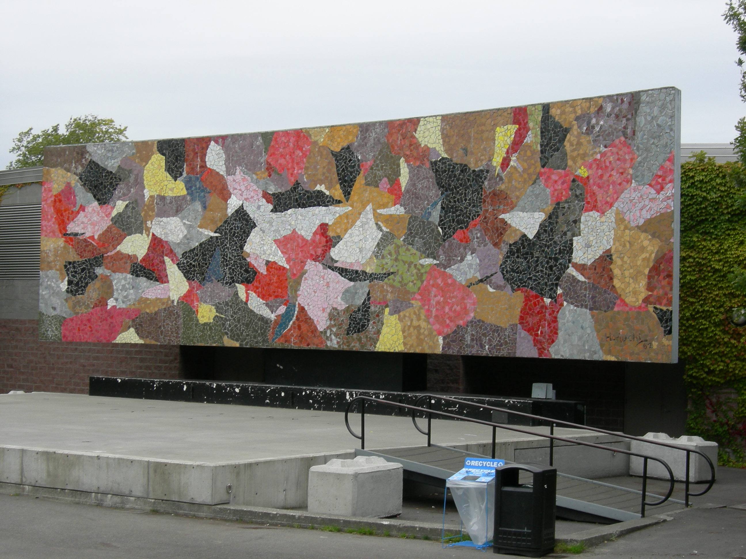 Mural Amphitheater, Seattle Center, Seattle, Washington